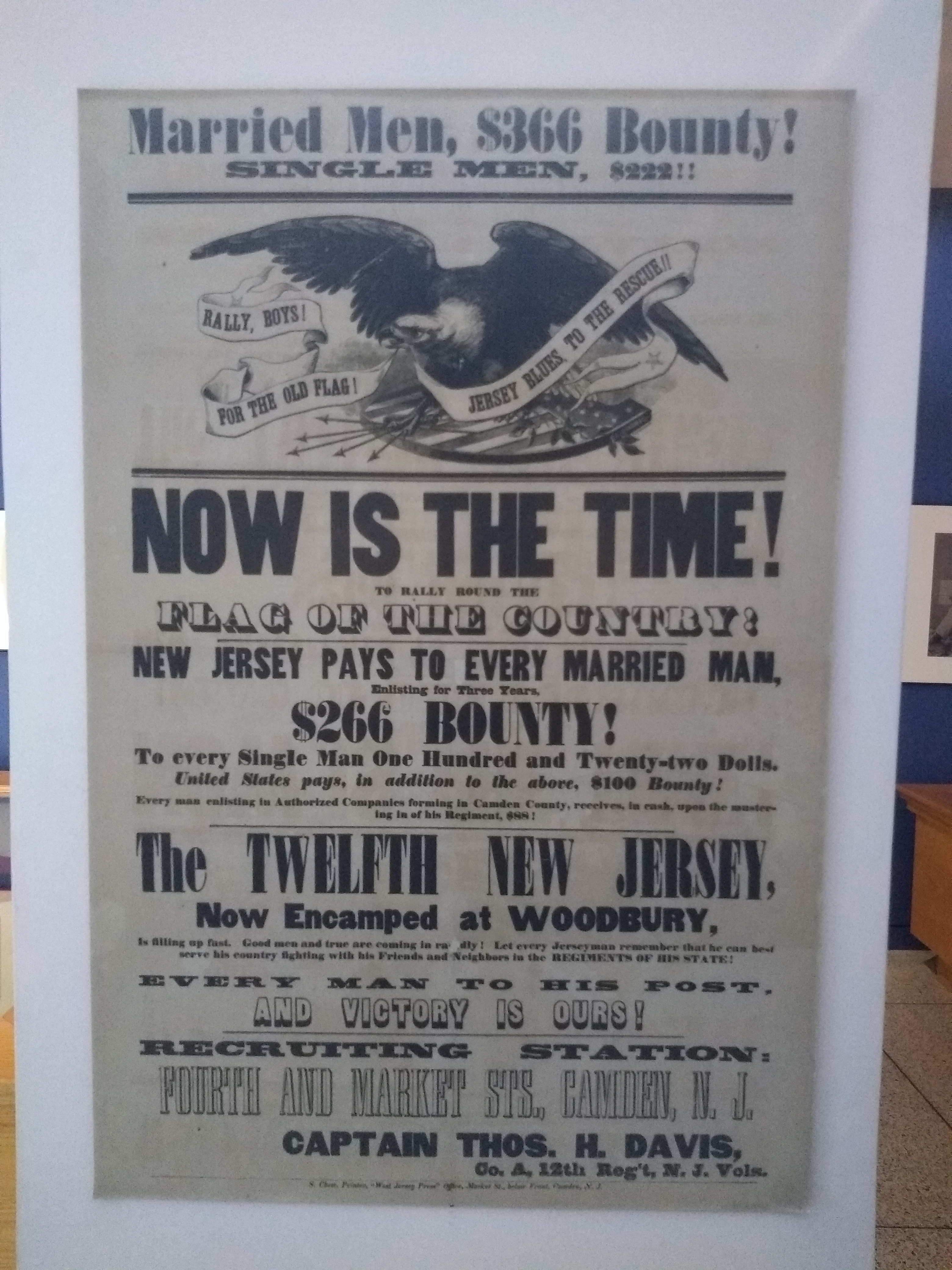 A reproduction of a recruitment poster for the 12th New Jersey Infantry Regiment in the American Civil War. On display in the New Jersey State Museum in Trenton, NJ.